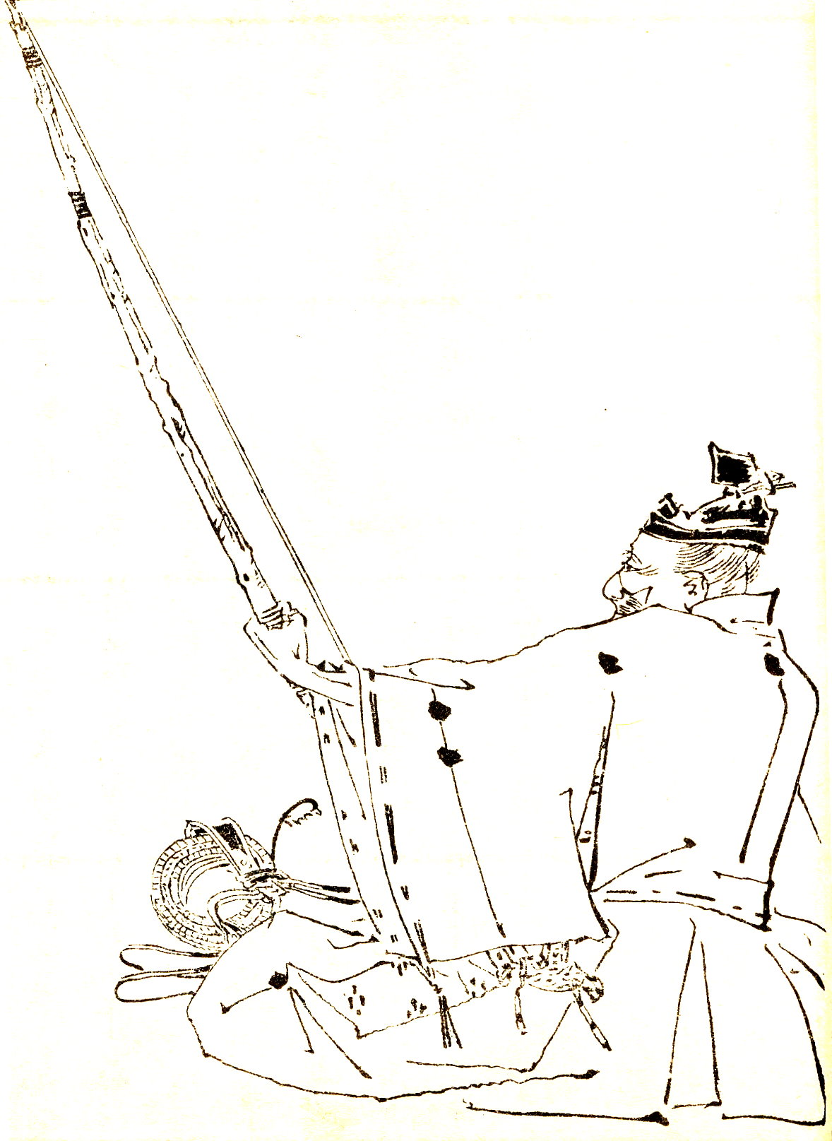 Fujiwara no Hidehira (藤原 秀衡) was the third ruler of Northern Fujiwara in Mutsu Province, Japan.This picture was drawn by Kikuchi Yosai（菊池容斎） who was a painter in Japan.